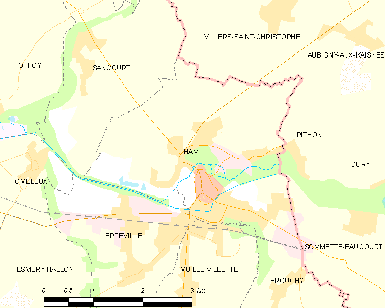 Map of French municipality Ham